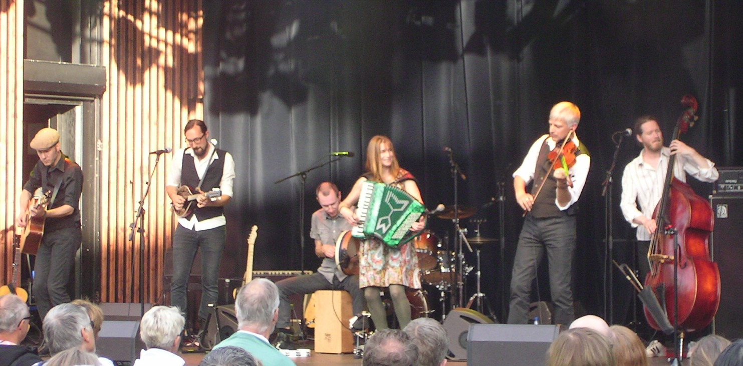 Swedish band West of Eden playing at Liseberg amusement park in Gothenburg 18 June 2013.